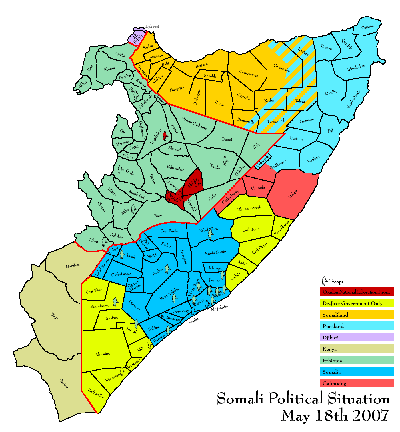 Map of Somali Territories as of May 18th 2007, with the latest territorial exchanges in the various conflicts.